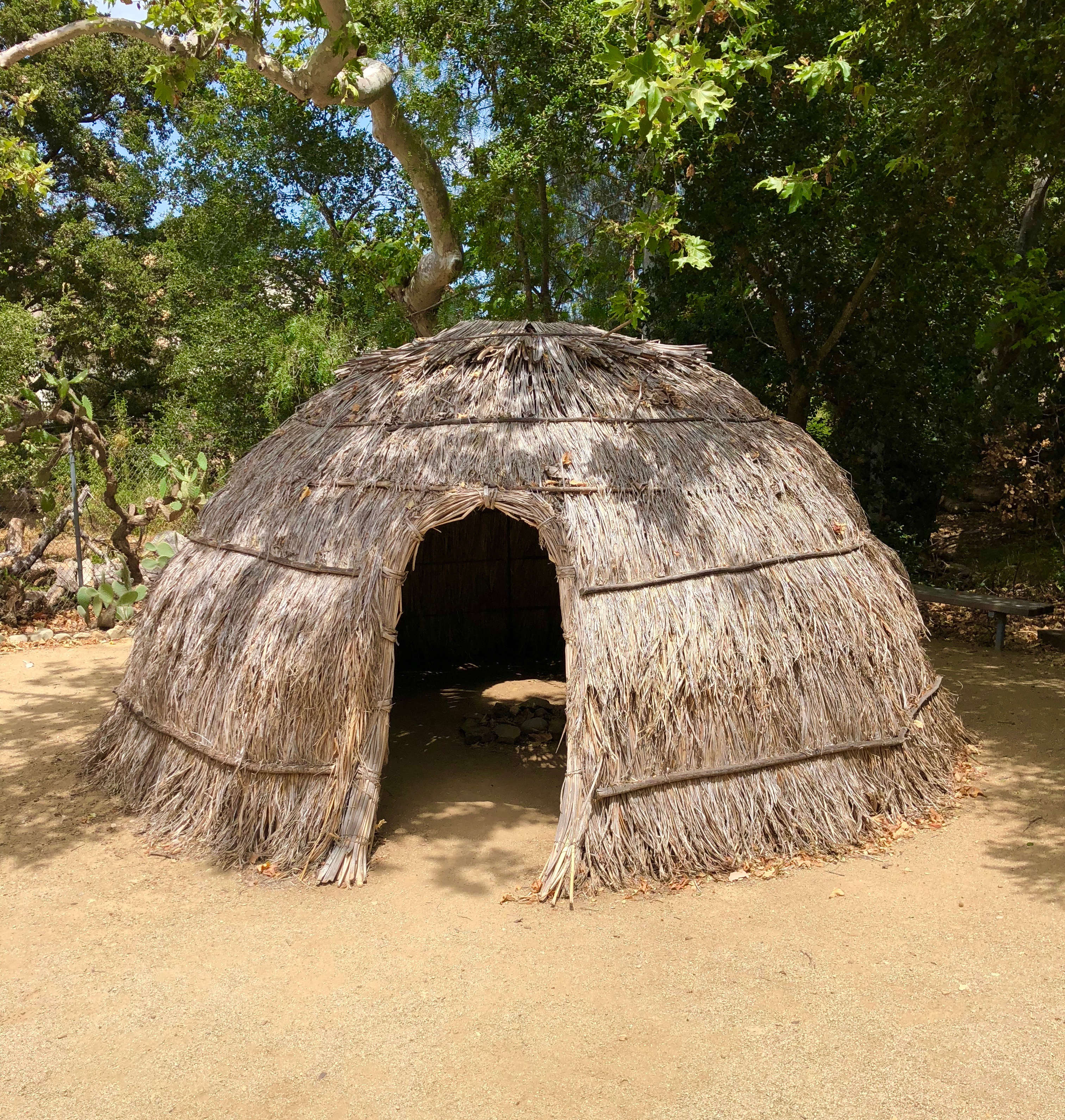 Reconstructed Chumash 'ap at the Tri-Village Complex at Stagecoach Inn, Newbury Park, CA.